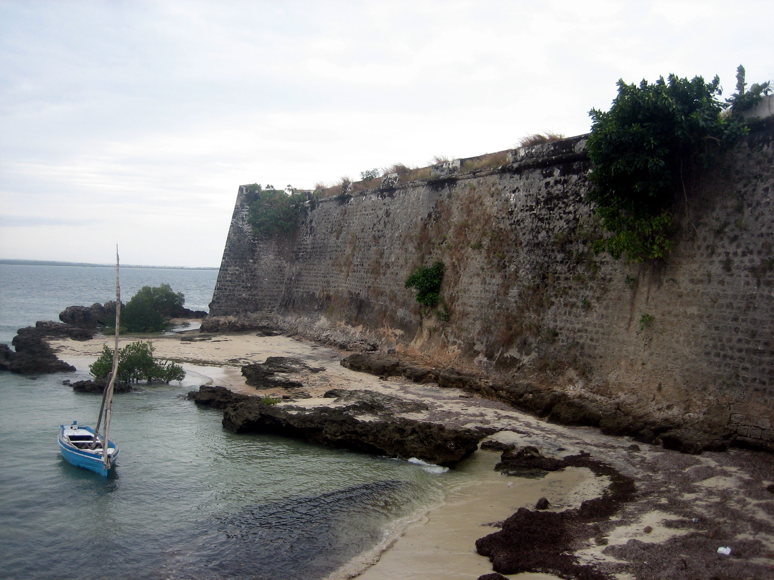 Fort of Sao Sebastiao